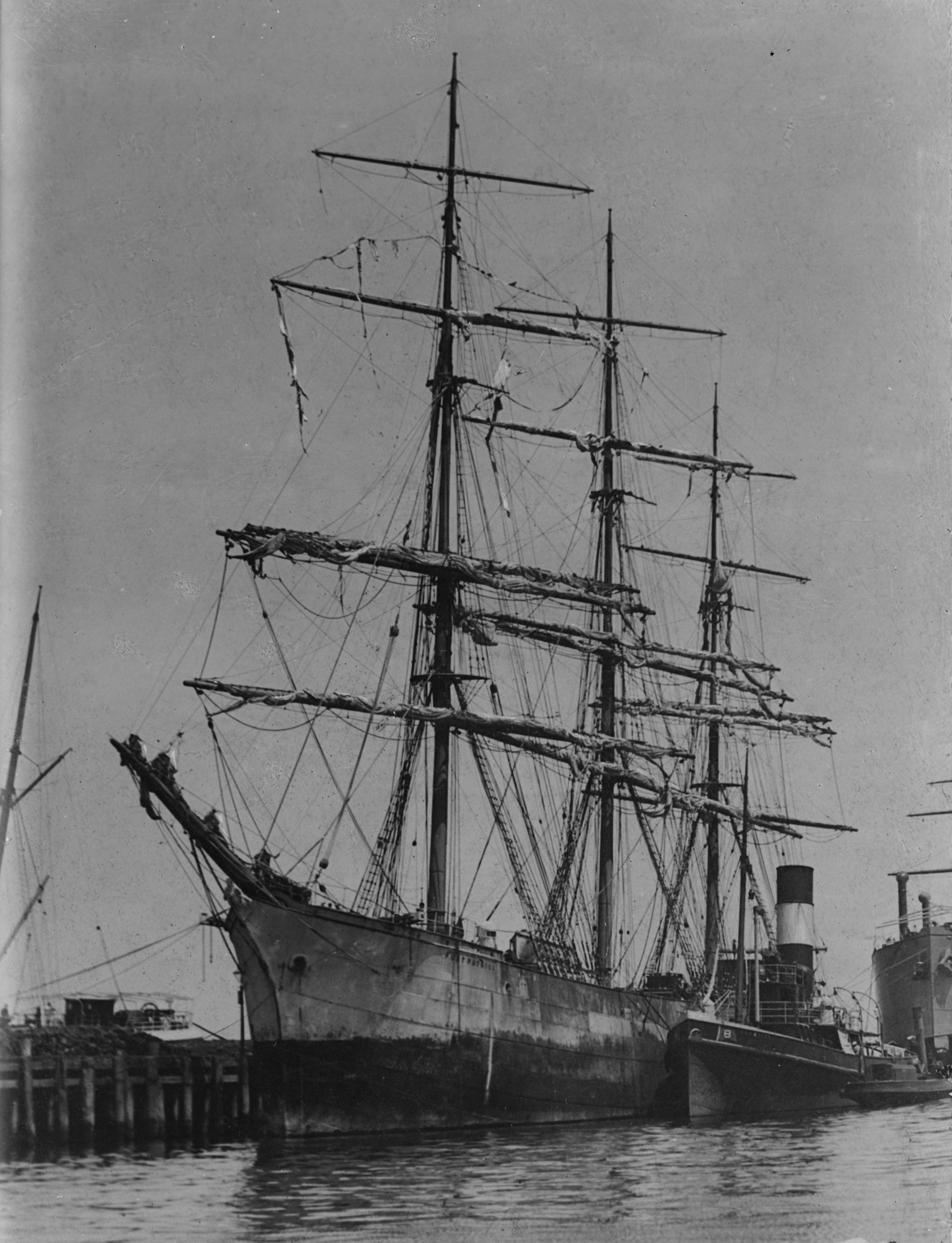 Original caption: “PORT PATRICK & CHAMPION”